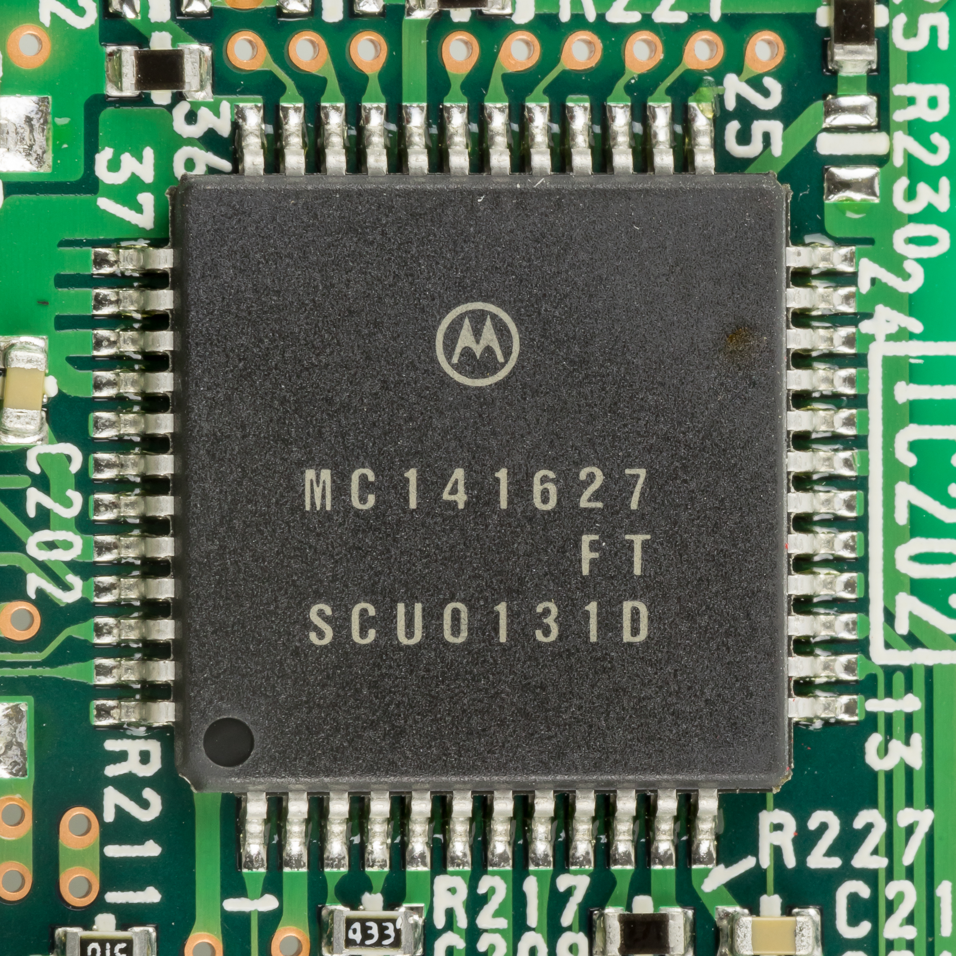 Sony VPL-HS1 - EP-GW 1-682-352-12 - Motorola MC141627FT - Advanced PAL Comb Filter-II (APCF-II). Package: QFP